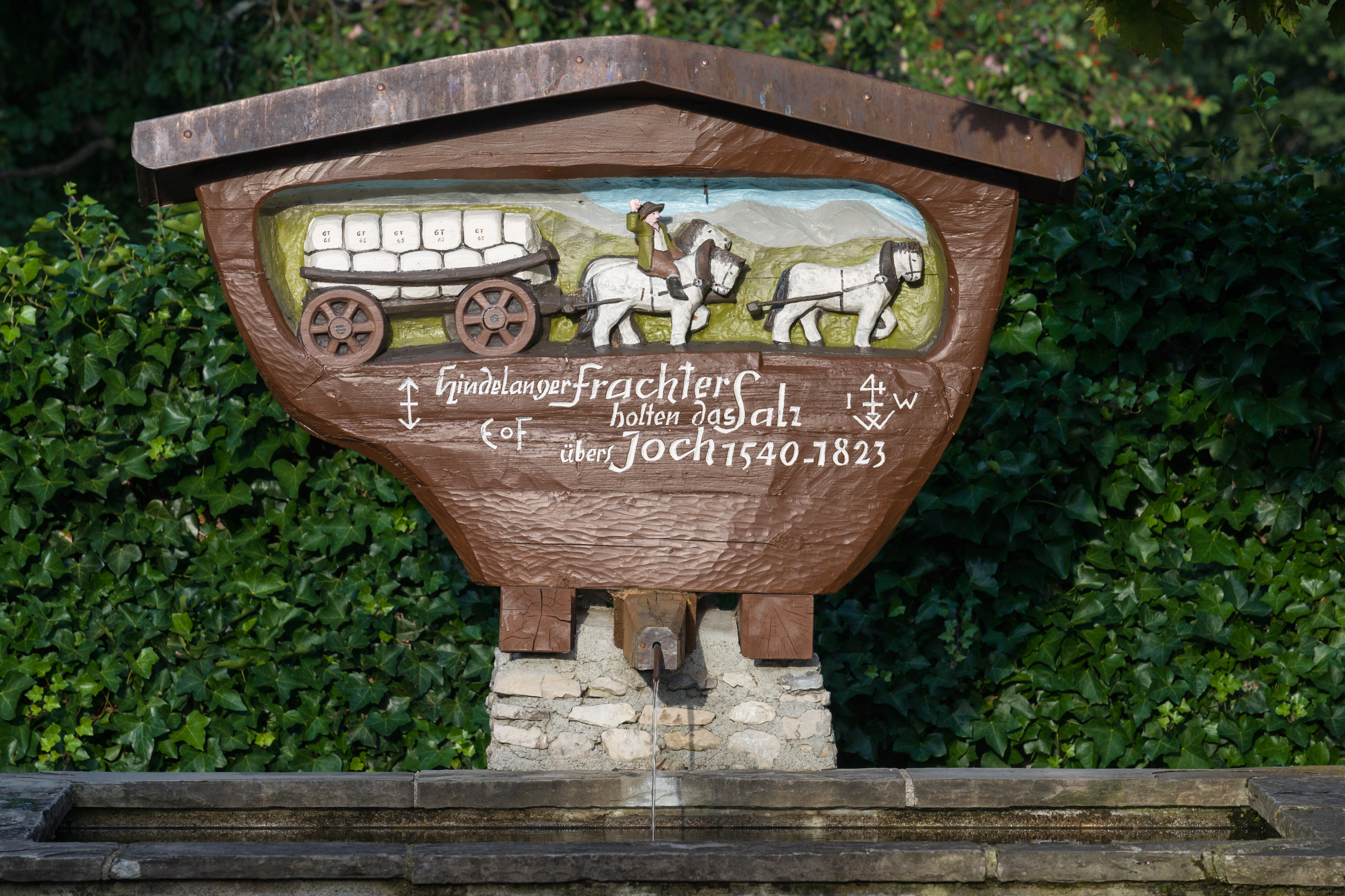 The so-called 'Salzbrunnen' (salt fountain) of Bad Hindelang on a sunny summer day. View from the west of the fountain.